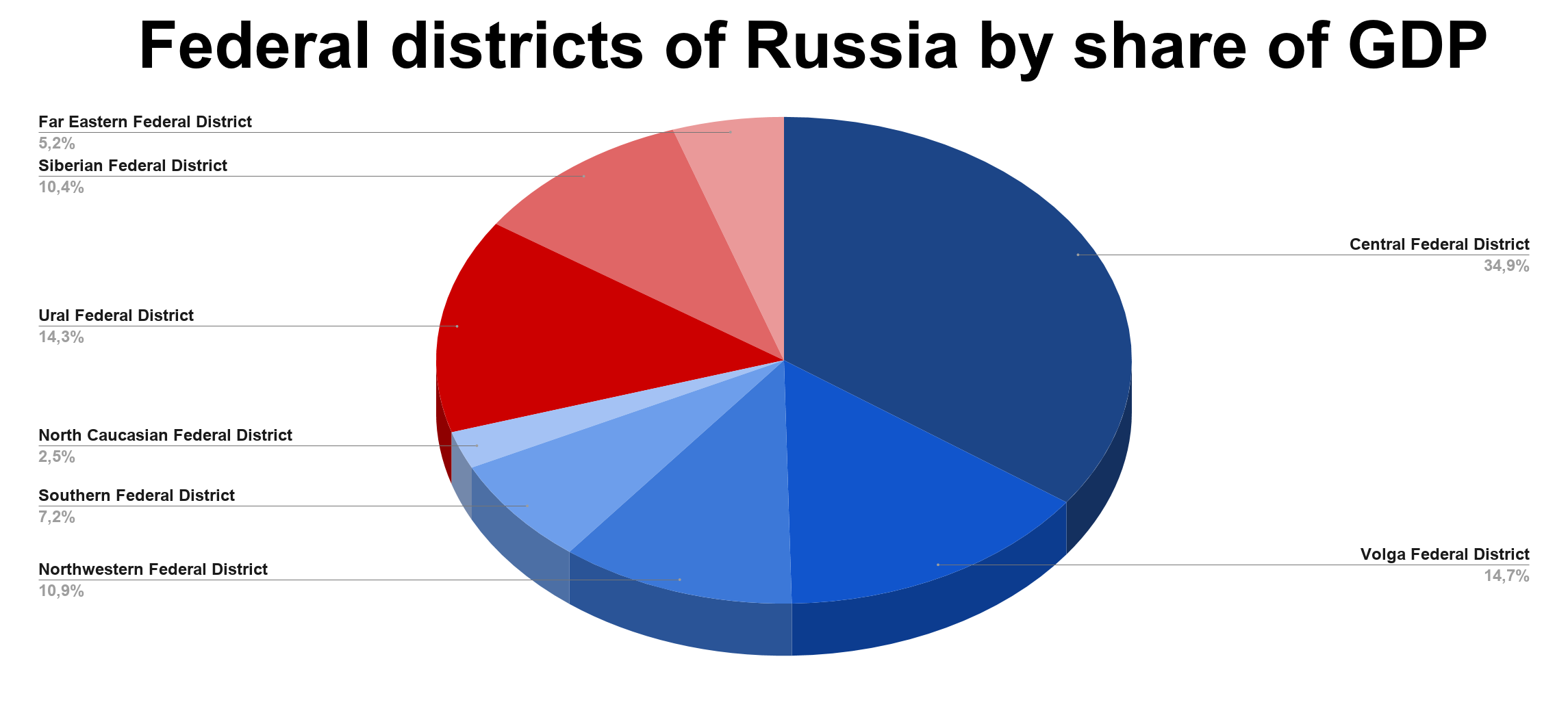 GDP distribution of Russian Federal Districts, 2017. Data by Rosstat archives, quick numbers provided below in billions of ₽ 26164.237 Central Federal District 11026.688 Volga Federal District 8195.347 Northwestern Federal District 5361.879 Southern Federal District 1864.723 North Caucasian Federal District 10677.942 Ural Federal District 7757.655 Siberian Federal District 3878.320 Far Eastern Federal District